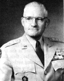 Gneral Williston B. Palmer from [1]. Official U.S. Army photo, ineligible for copyright